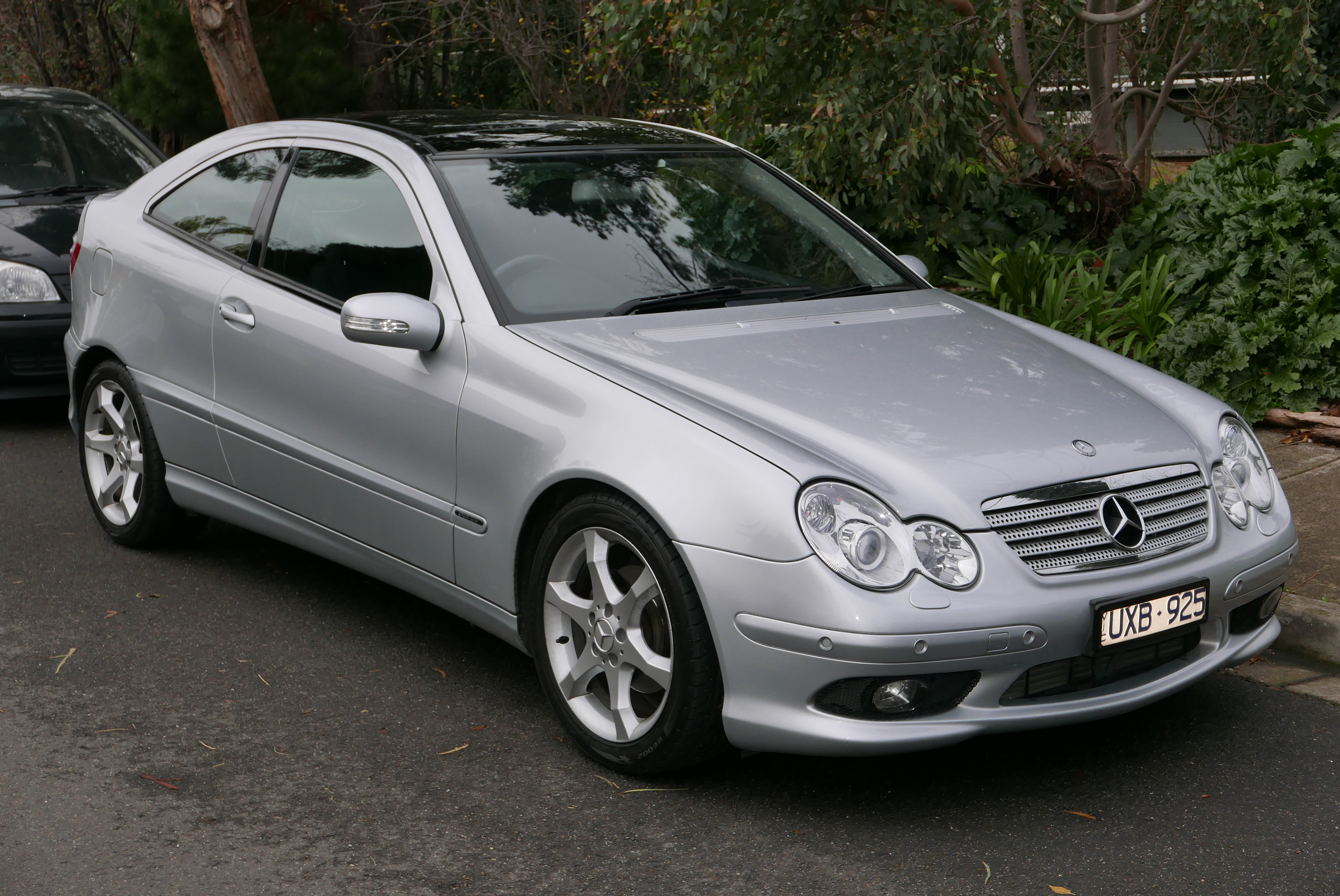 2007 Mercedes-Benz C 180 Kompressor (CL 203 MY07) Super Sport hatchback. Information about the Super Sport from [1]. Photographed in Ivanhoe, Victoria, Australia. Vehicle registration enquiry results Jurisdiction Victoria Registration UXB925 Chassis code WDB2037462A968017 Engine code 27194630905113 Compliance date 2007-08 Year of manufacture 2007